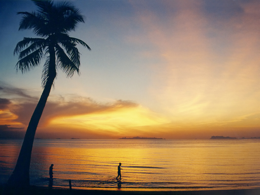 Lipa Noi Beach on Ko Samui, Thailand, shortly after sunset with coco palm. The islands of the Ang Thong Marine National Park (Mu Koh Angthong) are visible at the horizon.